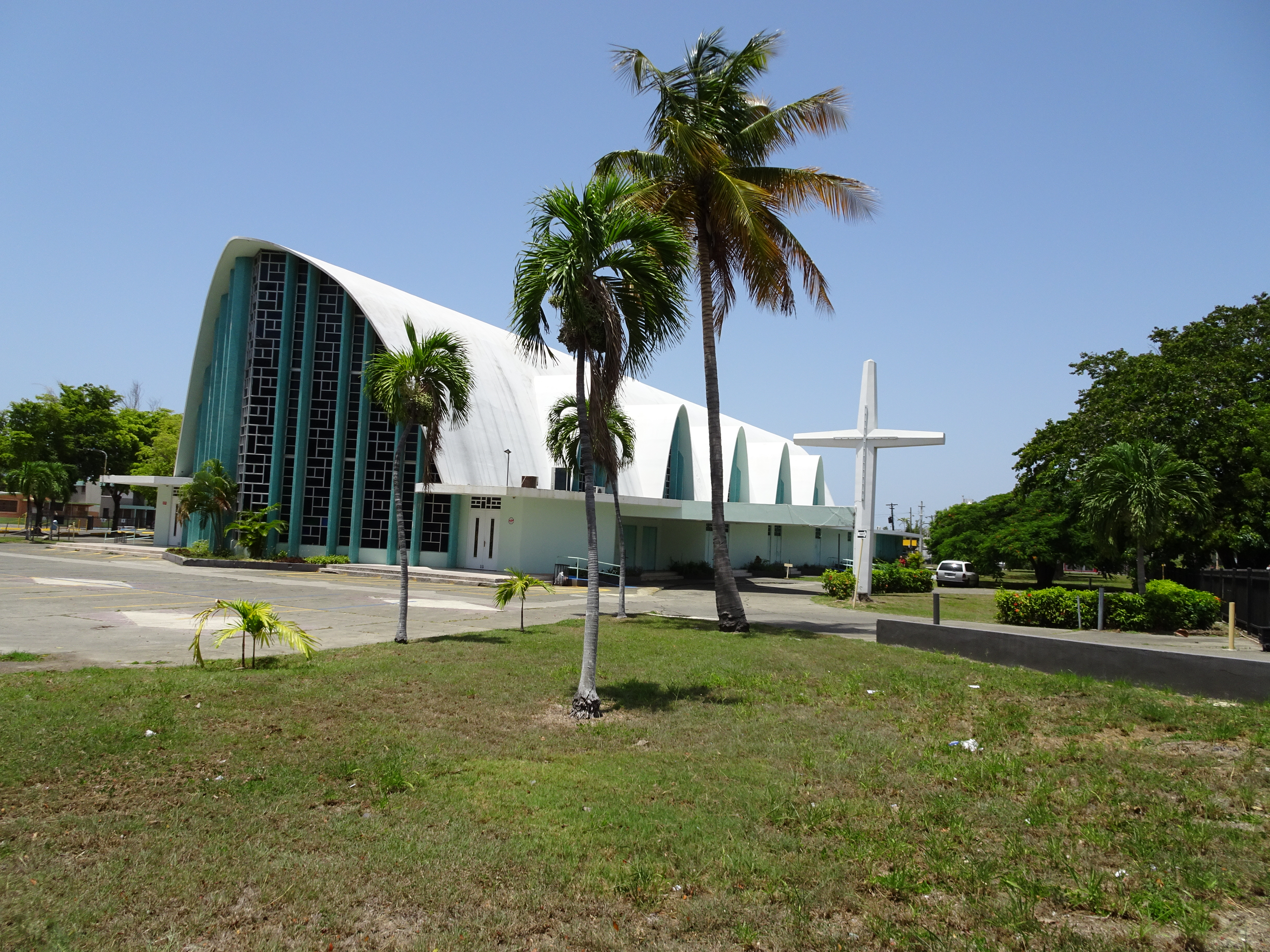 Iglesia Santa Maria Reina, Bo. Canas Urbano, Ponce, PR, mirando hacia el suroeste desde Ave. Las Americas